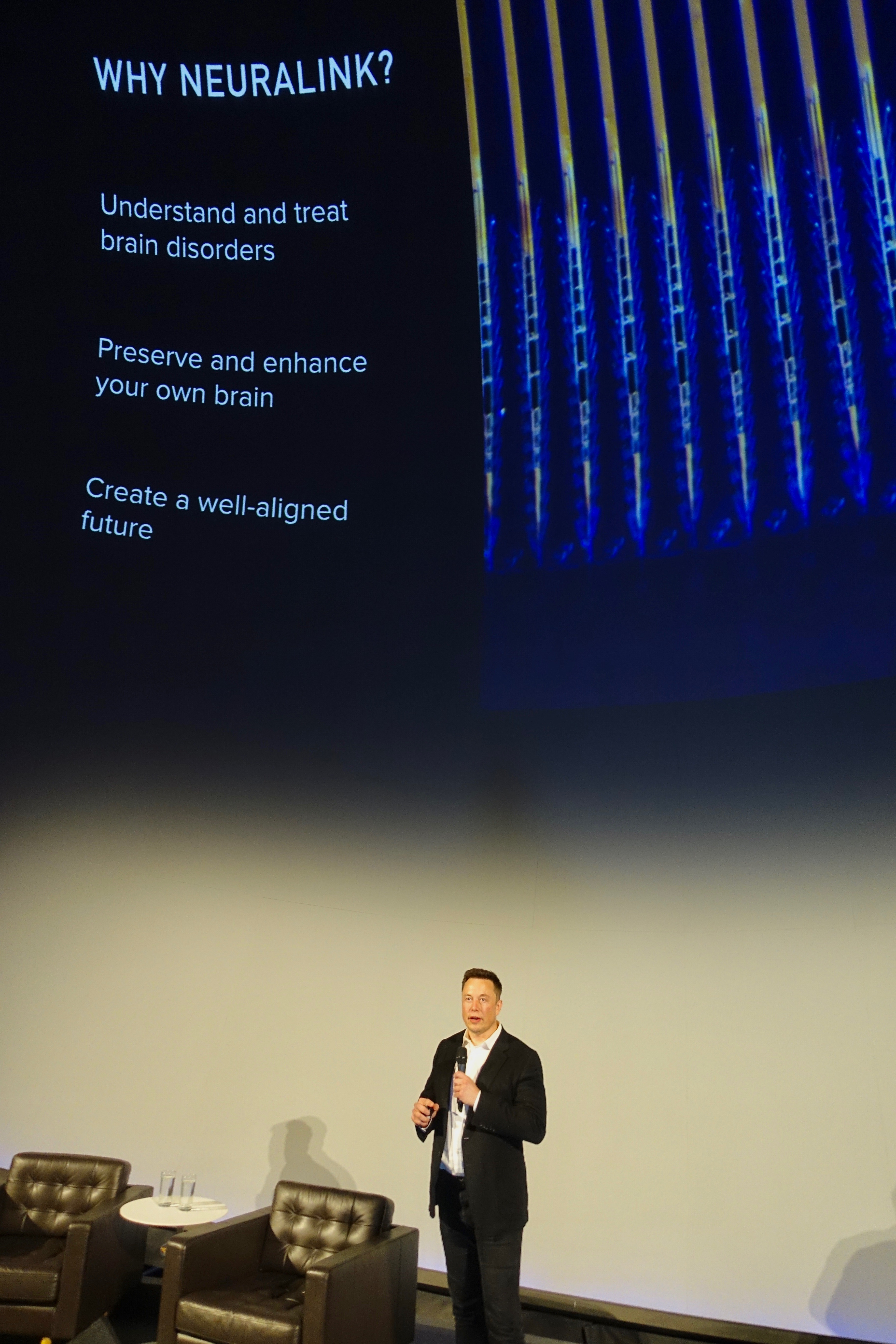 Elon Musk presenting the Neuralink master plan.